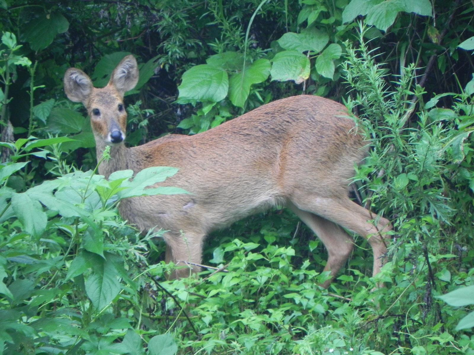 Korean Water Deer, adult female, photographed on Macha Mountain north of Seoul in Kyonggi Province, Republic of Korea